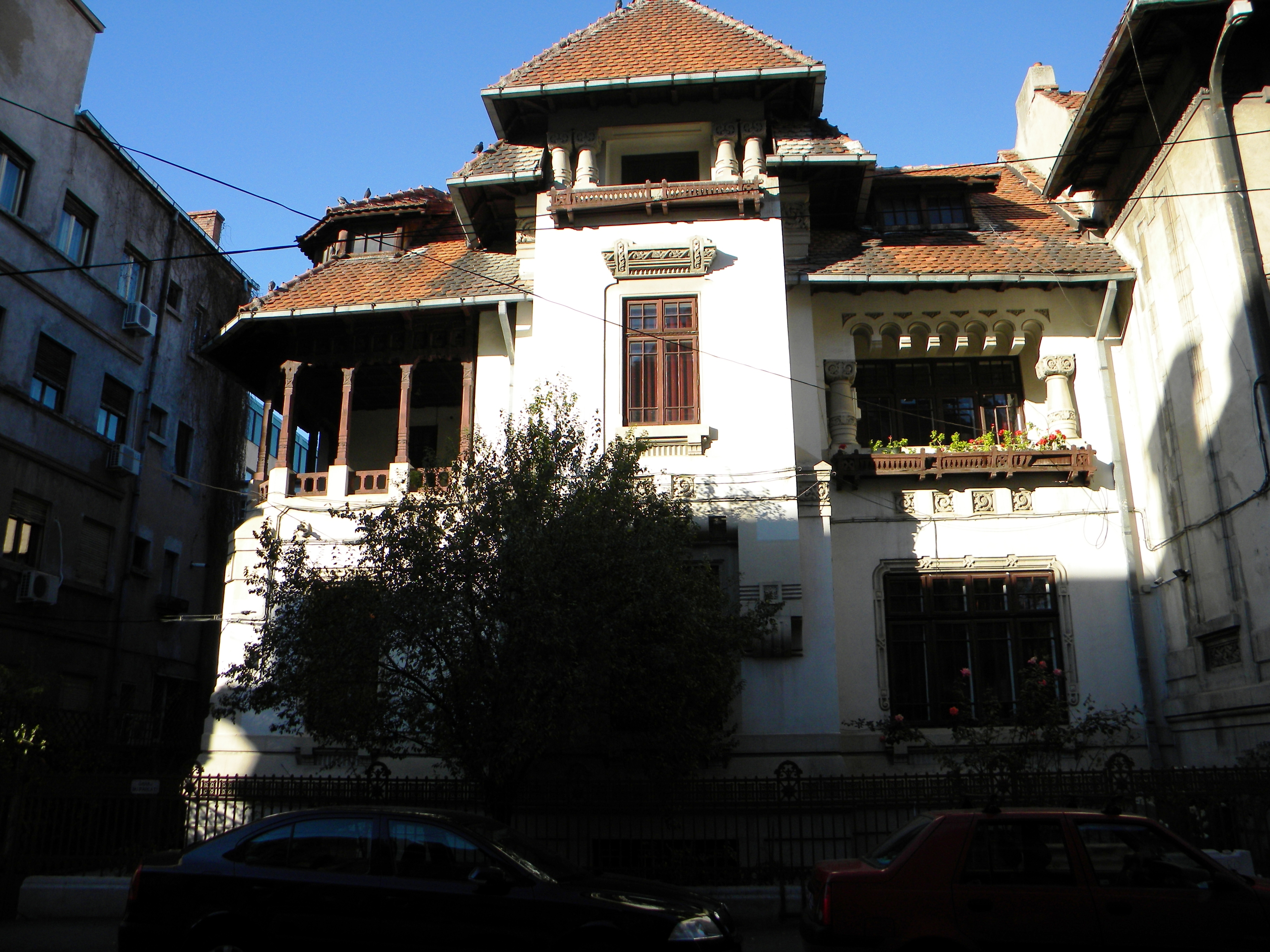 Bucuresti, Romania, Str. Alexandru Philippide nr. 3, sect. 2 (Cod B-II-m-B-19376) (1)